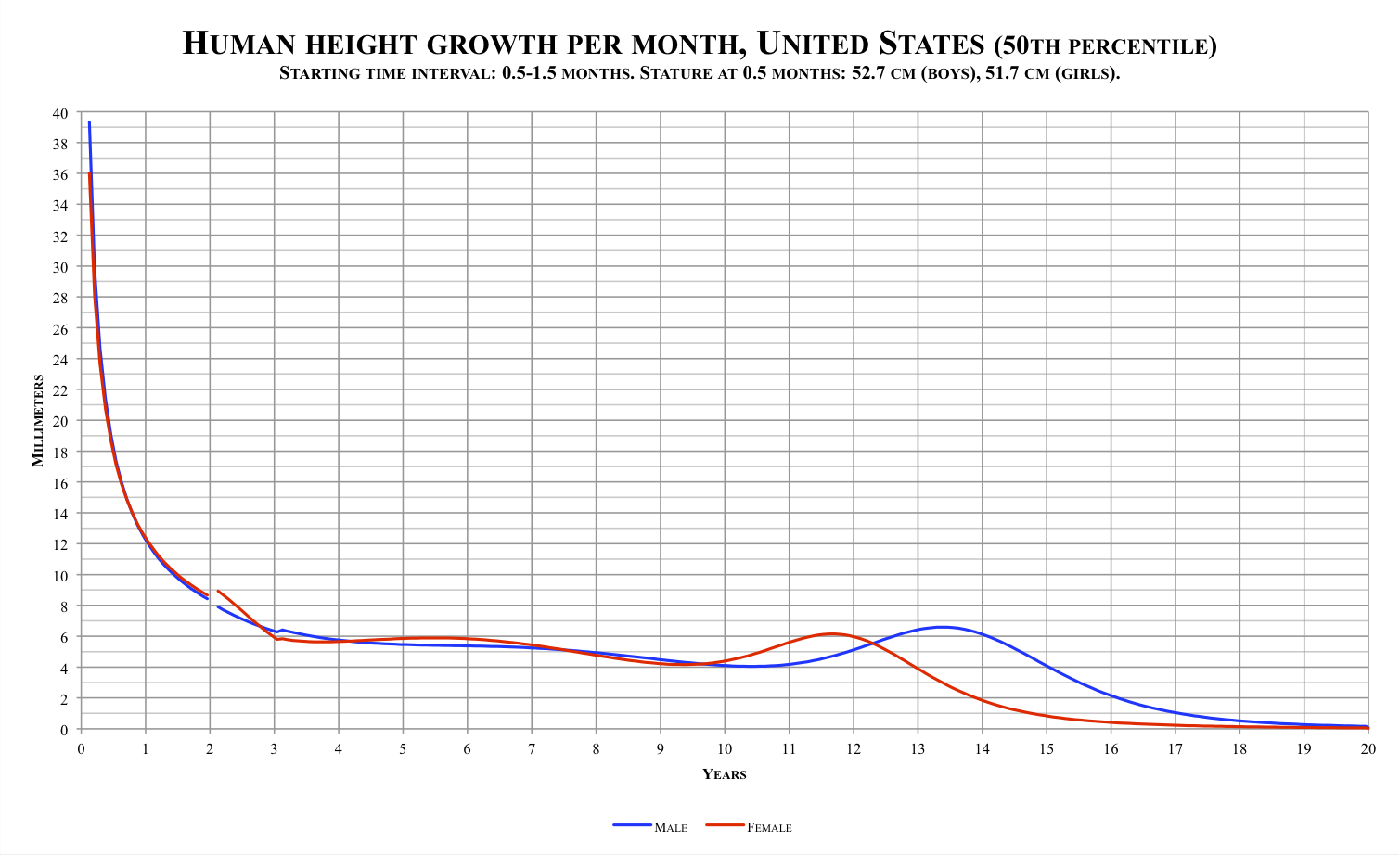 Human height growth per month for the United States, ages 0–20, 50th percentile. Source: Centers for Disease Control and Prevention. Accessed on February 23, 2013.